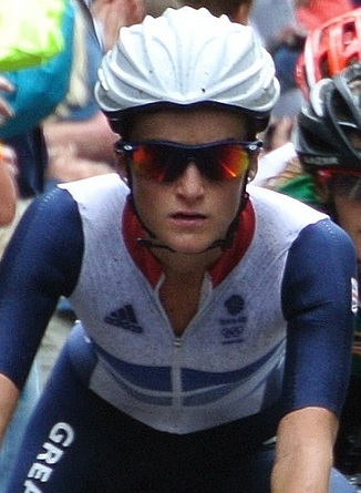 Lizzie Armitstead in the women's road race at the London 2012 Olympic Games